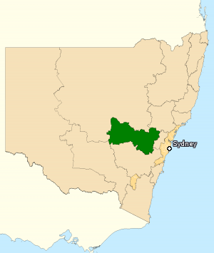 This image incorporates data that is: © Commonwealth of Australia (Australian Electoral Commission) 2009 Division of Calare 2010